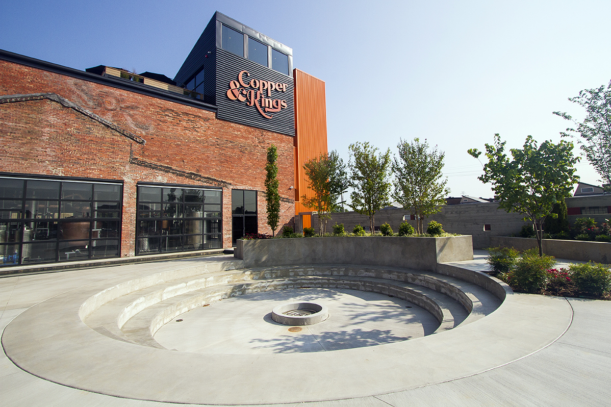 Copper & Kings American Brandy Co. Distillery located in Butchertown, Louisville, KY